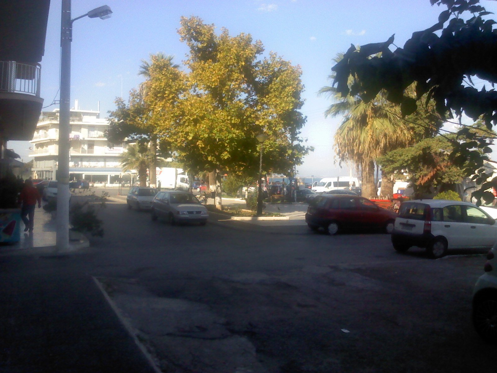 Square Agiou Andrea Oropos